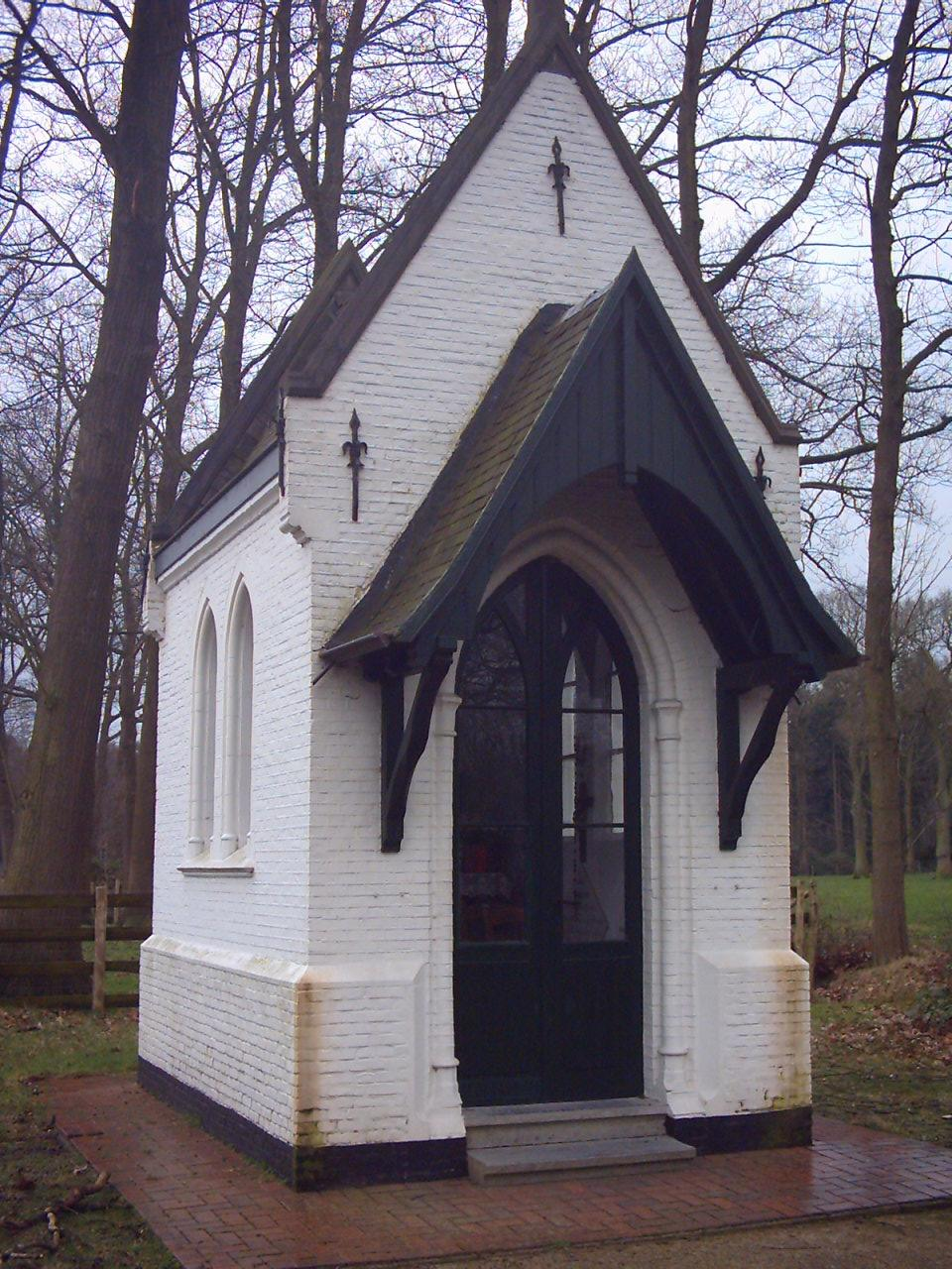 Picture taken by Peter Van Osta (myself) on 24 February 2007 of the Chapel of Our lady of Lourdes at Blommerschot (Oostmalle, Belgium).